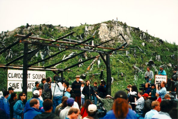 Midnight Oil at a 1993 benefit for Clayoquot Sound.